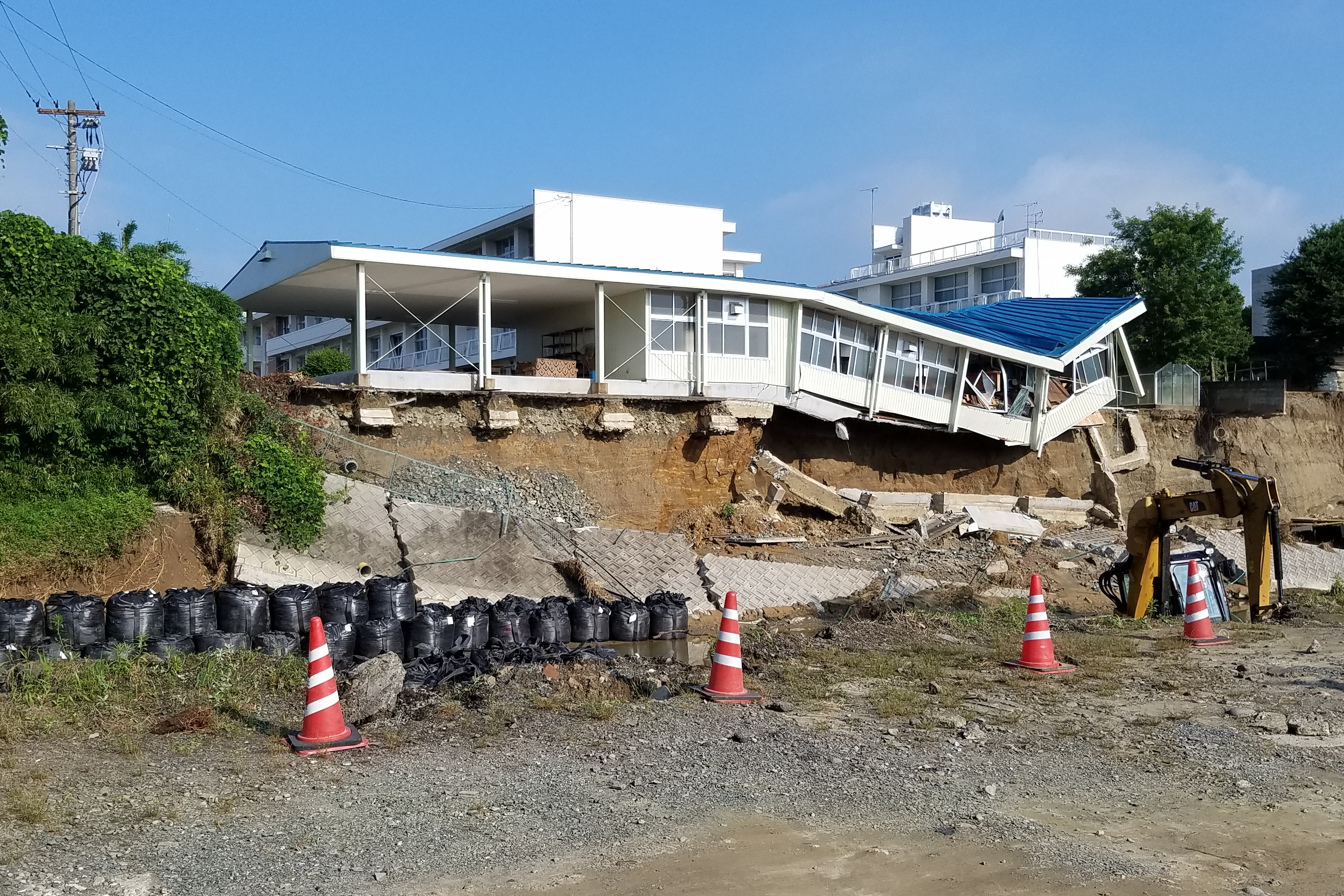 A building collapsed by flood of Katsura River, in Municipal Hiramatsu junior high school in Asakura, Fukuoka.